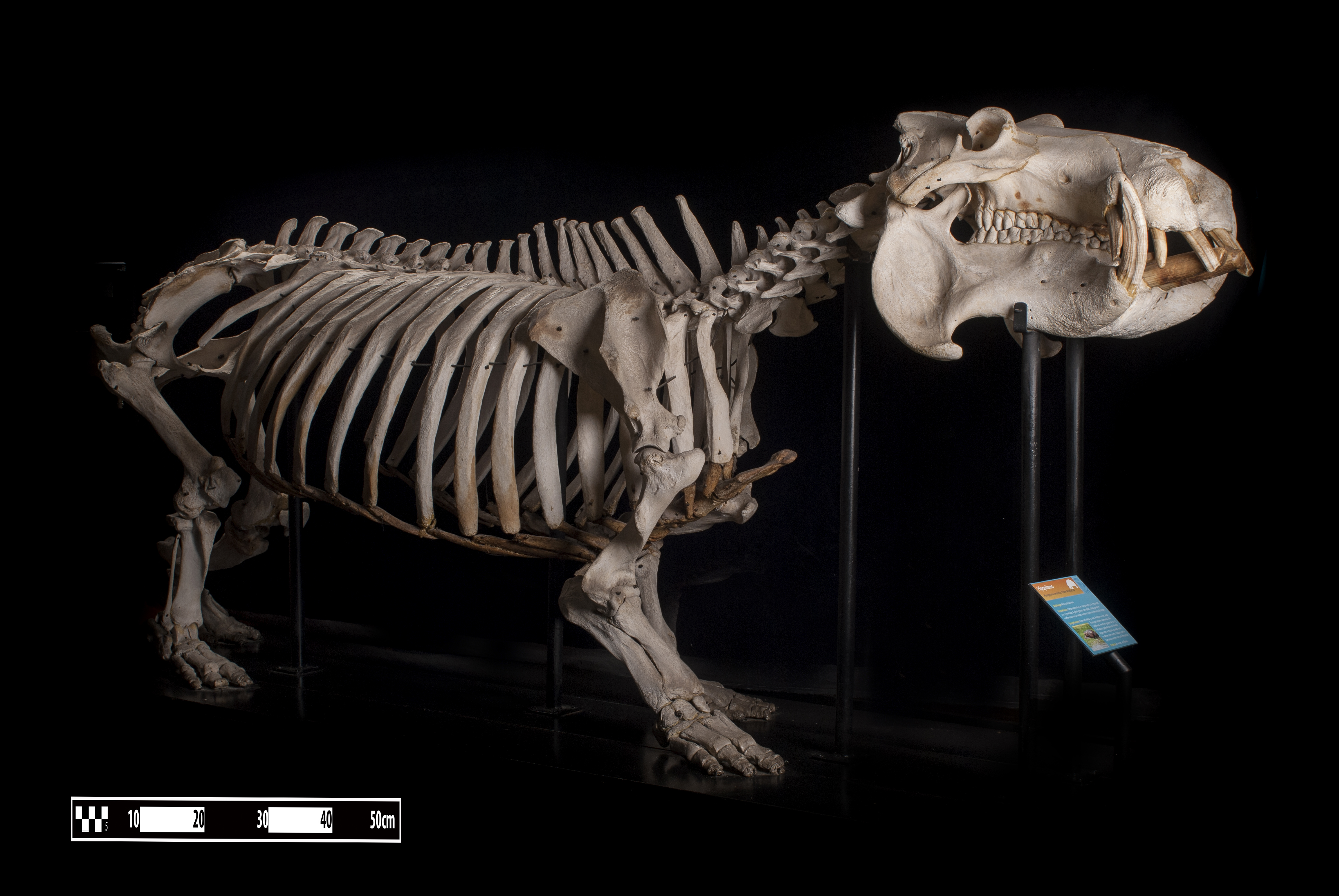 Hippopotamus amphibius. Specimen of hipoppotamus skeleton prepared by the bone maceration technique and on display at the Museum of Veterinary Anatomy, FMVZ USP.